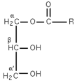 General chemical structure of a monoglyceride